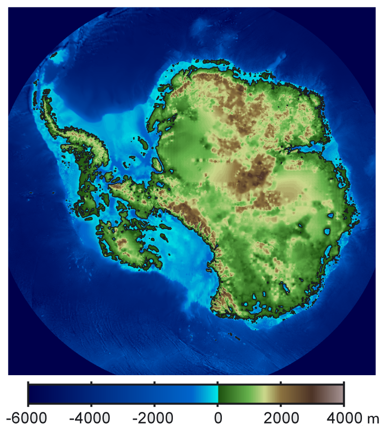 This is topographic map of Antarctica after removing the ice sheet and accounting for both isostatic rebound and sea level rise.